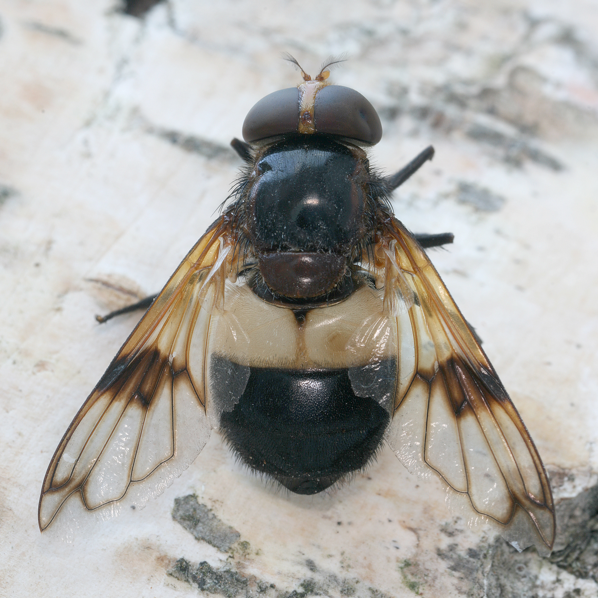 Description: Volucella pellucens is a hover-fly. It occurs in much of Europe, and across Asia to Japan.